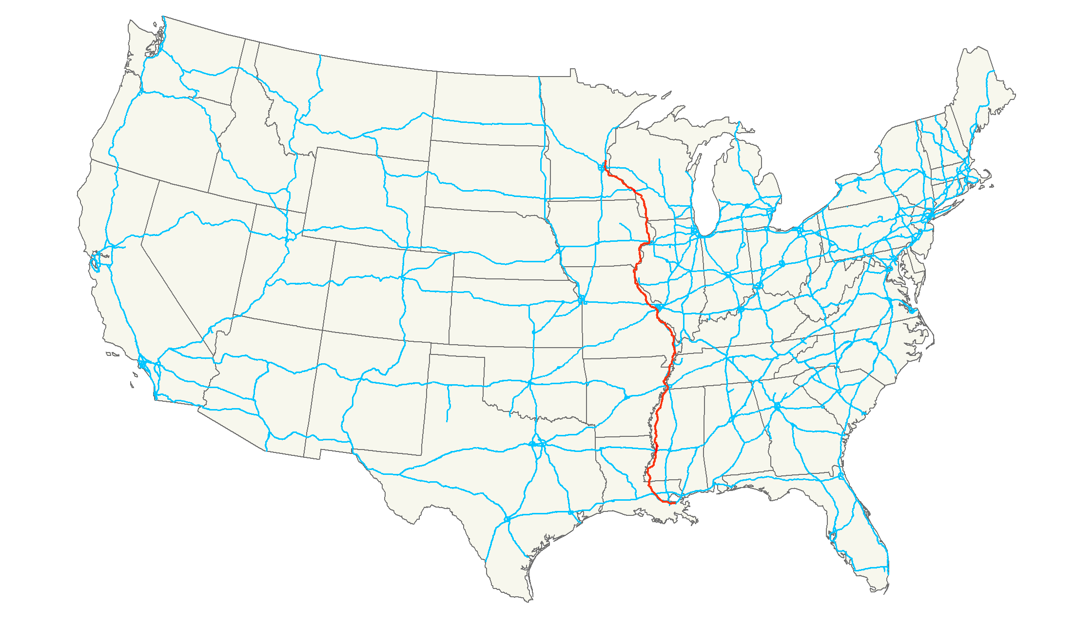 Map of U.S. Route 61